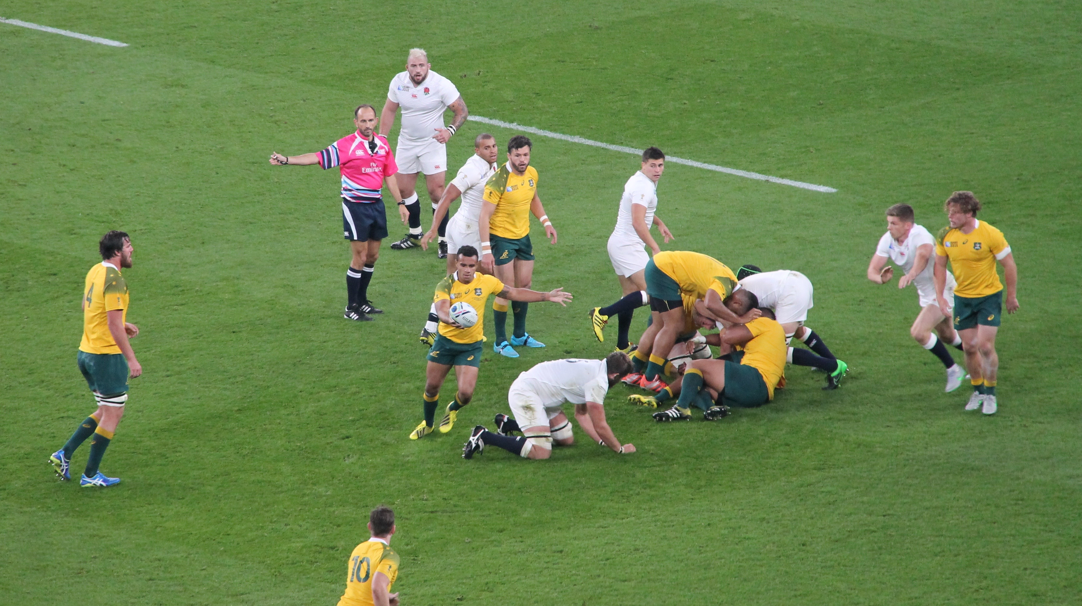 2015 Rugby World Cup match between England and Australia at Twickenham Stadium, London.